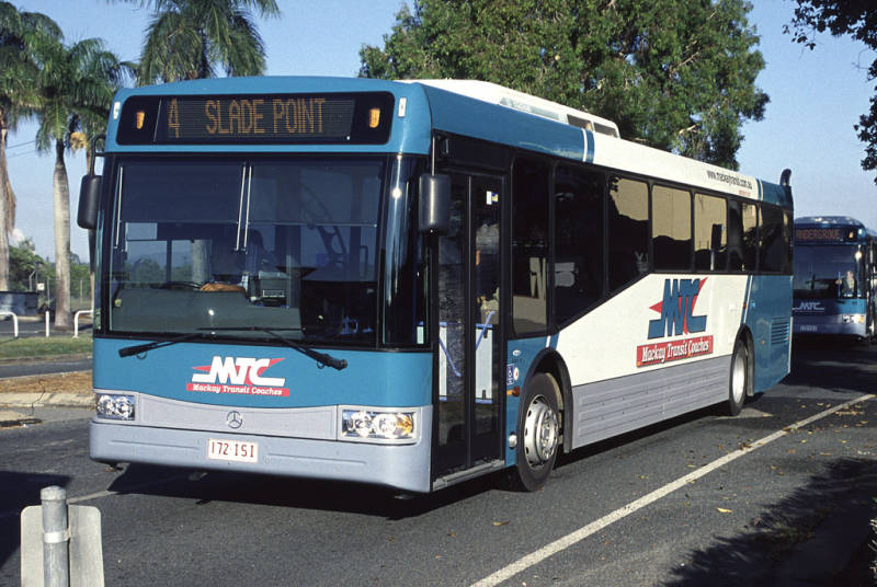 Mackay Transit bus 'Bustech VST' bodied Mercedes-Benz OC500LE (reg. 172 ISI or I72 151, built 2005) on Route 4.